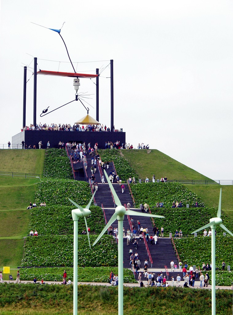 Impressions of Floriade 2002